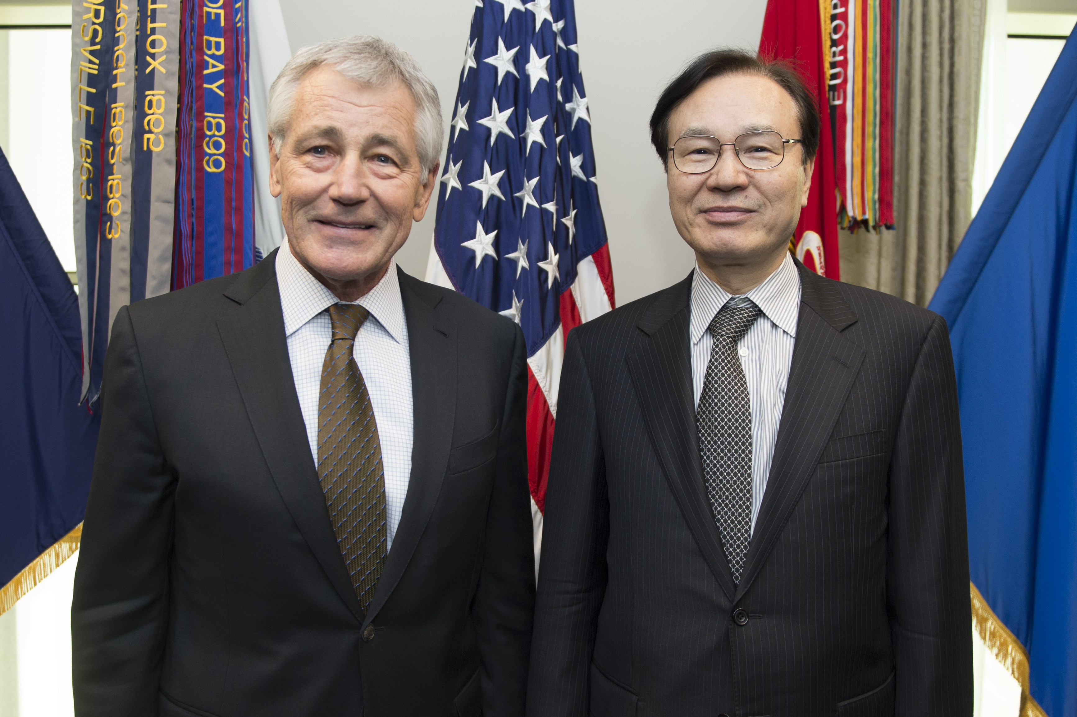 Shōtarō Yachi, Secretary General of National Security Secretariat, Cabinet Secretariat, met Chuck Hagel, Secretary of Defense, at the Pentagon in Arlington County, Virginia Commonwealth on January 17, 2014.